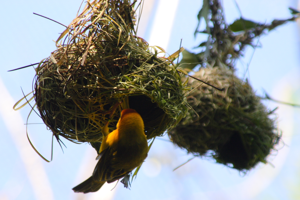 Taveta Golden-weaver (Ploceus castaneiceps) nest, Disney World's Animal Kingdom, Orlando, Florida.